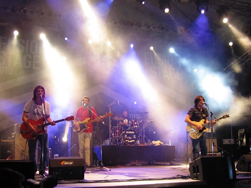 EXIT10 - Veliki prezir